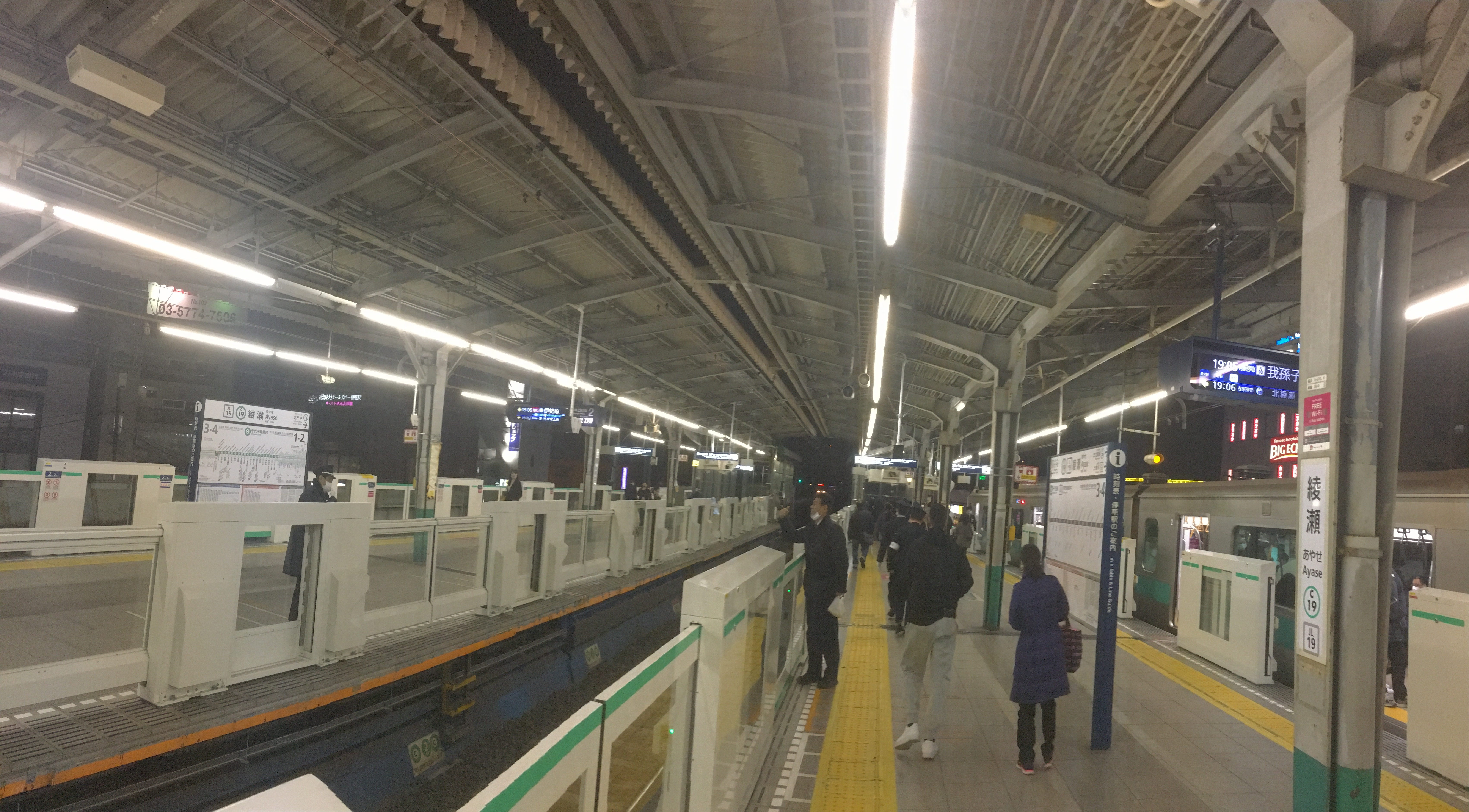 綾瀬駅のホーム (Ayase Station platforms)